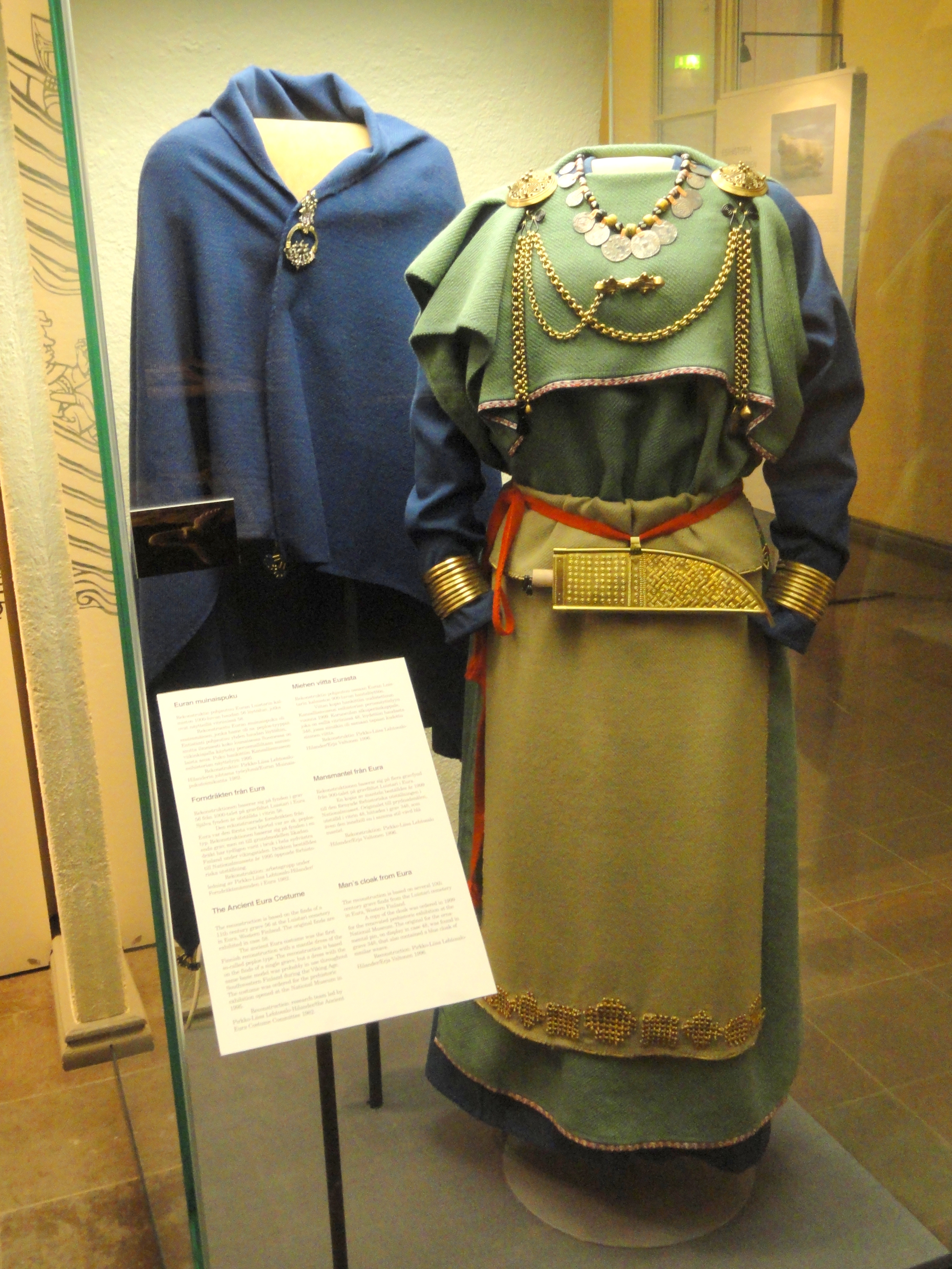 Exhibit in the Archaeological collections, National Museum of Finland, Helsinki, Finland.